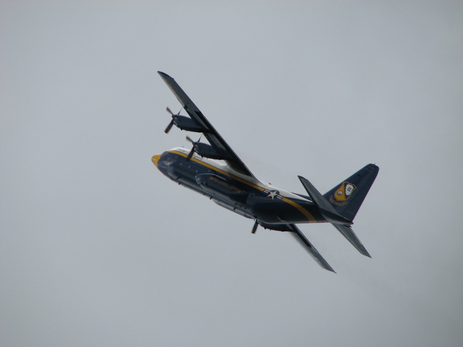 The Blue Angels' Lockheed C-130T Hercules, also known as "Fat Albert", banking right shortly after taking off during the Cleveland National Air Show in 2010.